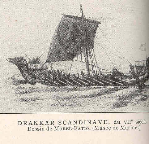 Vikingships, Drakkar Scandinave du Sailing ships